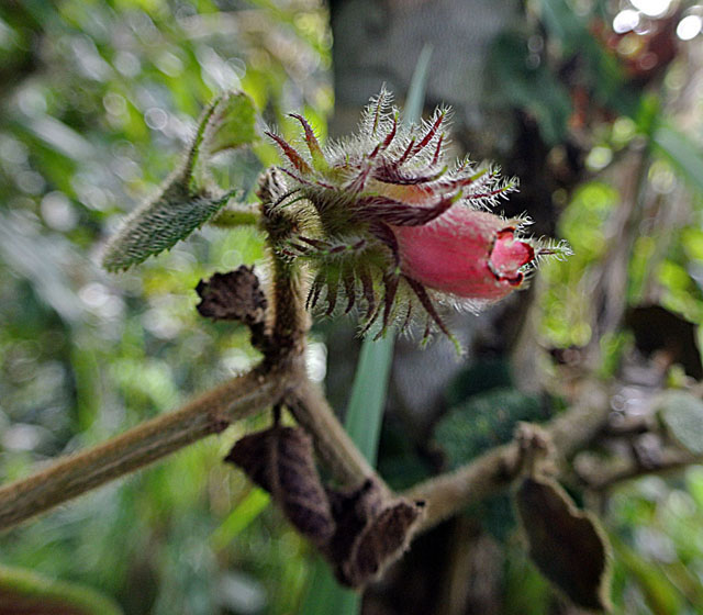 An unusual, vine-like Gesneriad, found at moderate elevations in the Neotropics. Photo from Wildsumaco Reserve, Ecuador. In context at